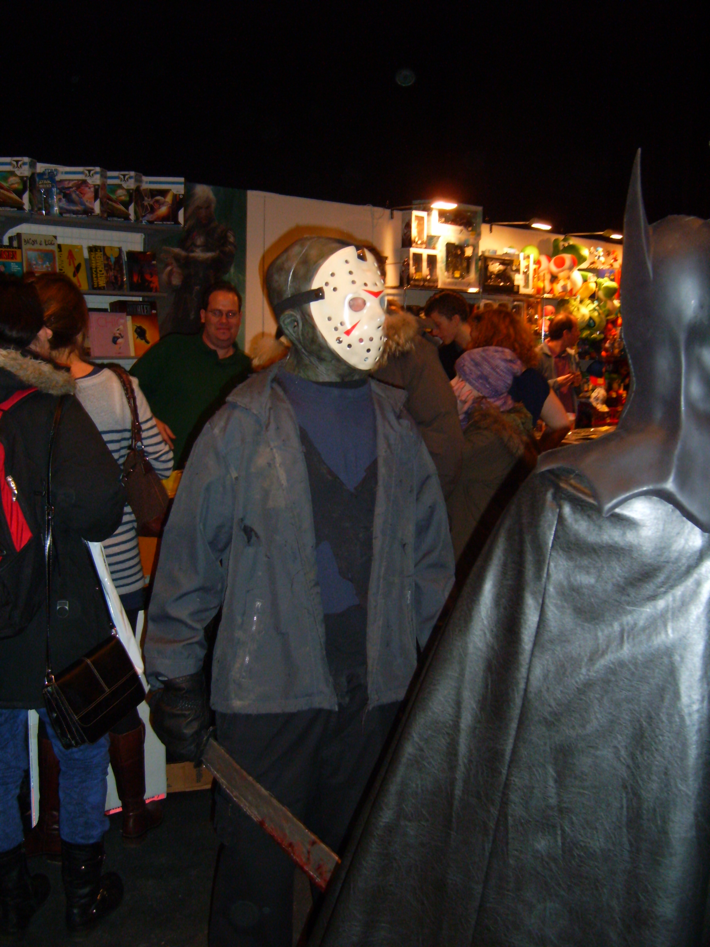 A man dressed as Jason Voorhees.